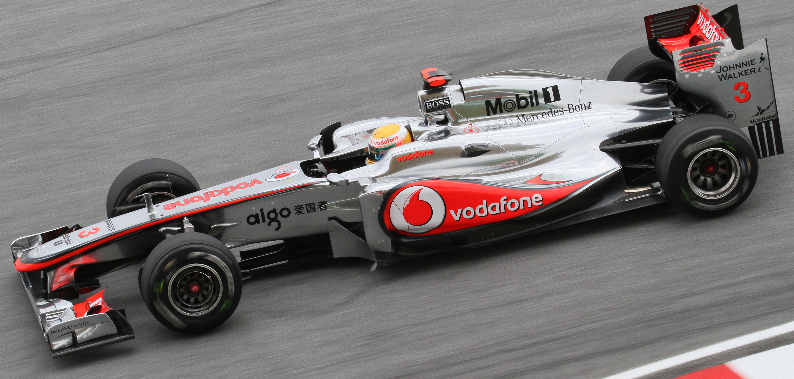 Formula One 2011 Rd.2 Malaysian GP: Lewis Hamilton (McLaren) during the first practice session on Friday.